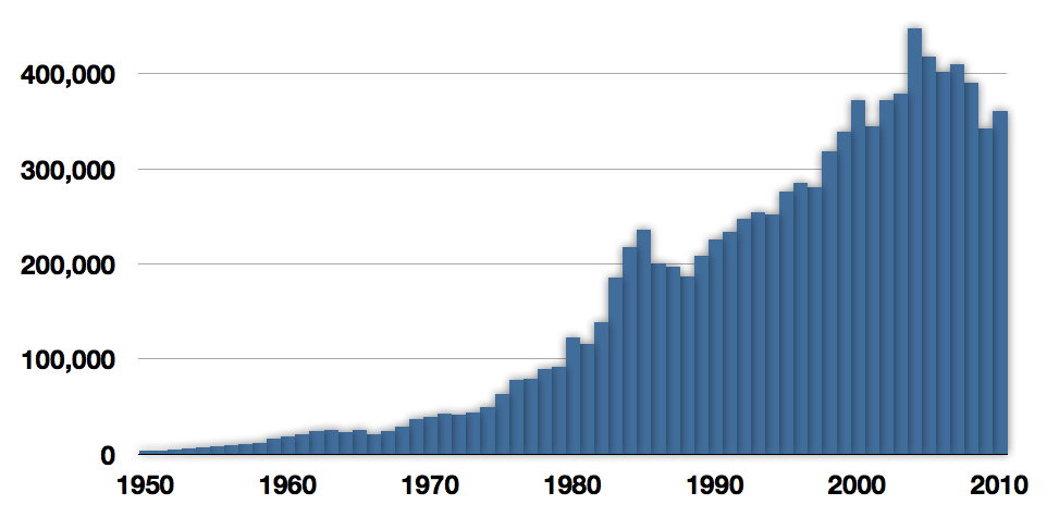 Fisheries recorded capture of wild northern prawn,Pandalus borealis, in tonnes from 1950 to 2010. Based on data sourced from the FishStat database, FAO.